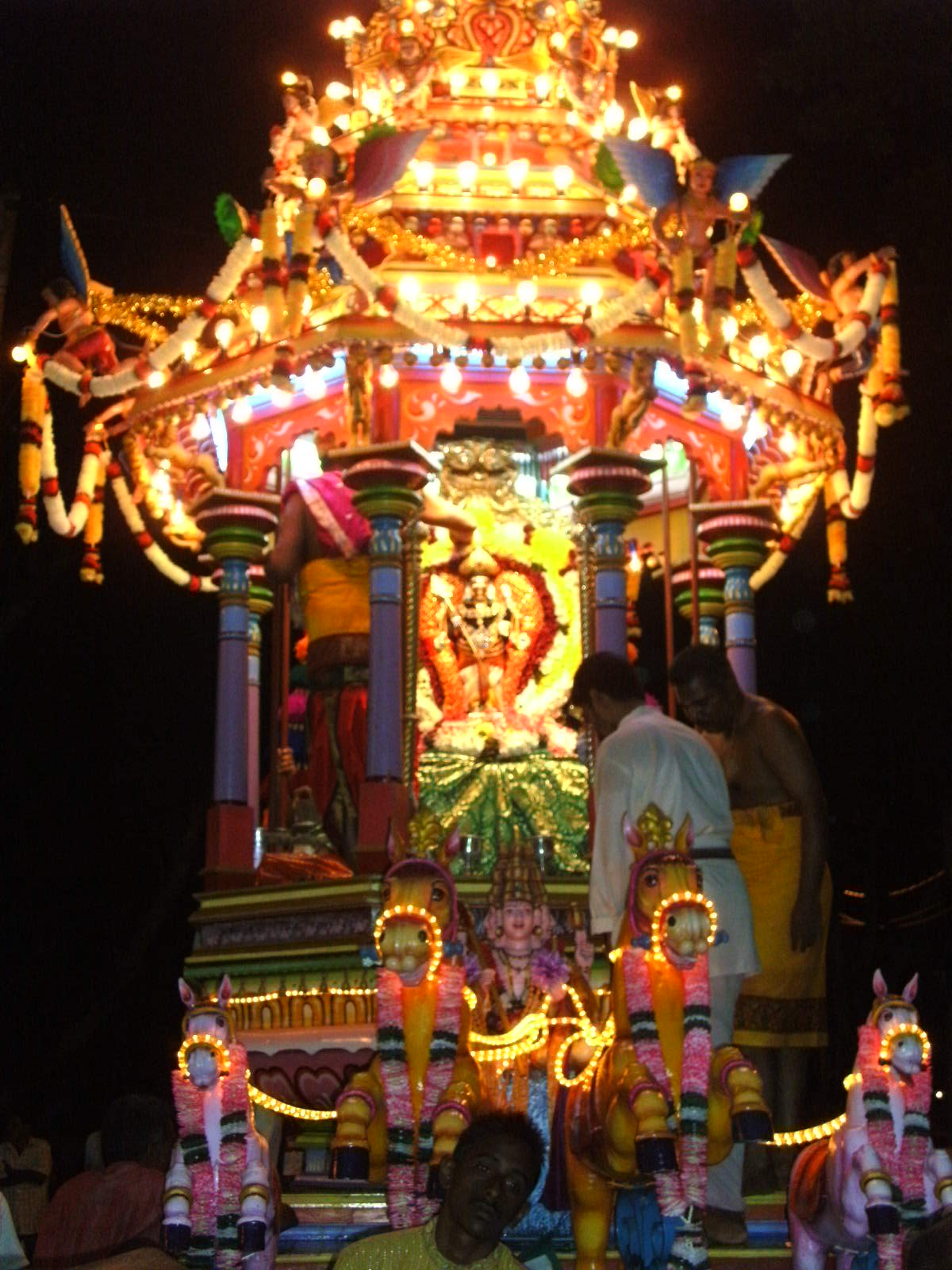 Chariot on Chithra Paruvam